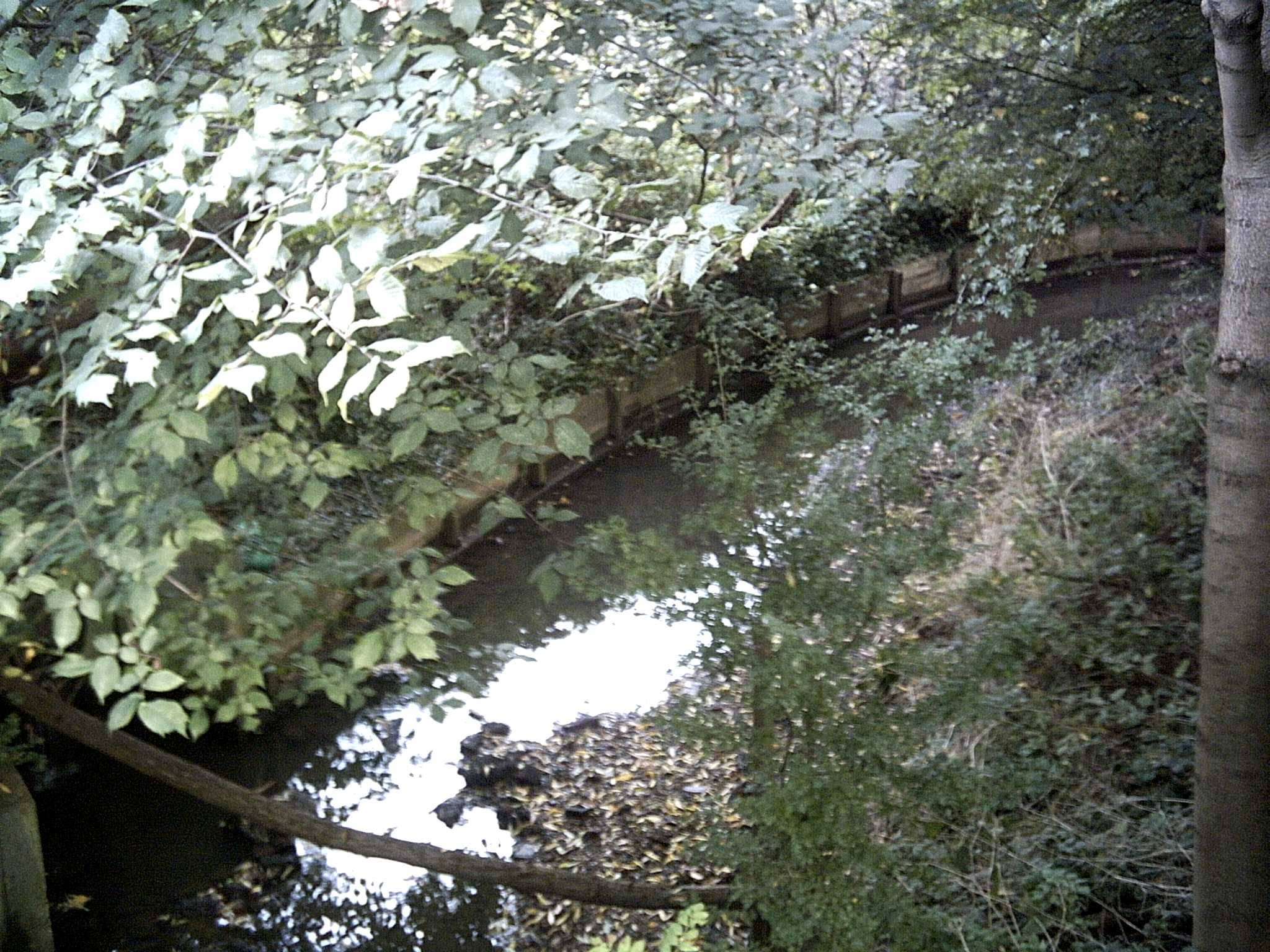 Dollis Brook, looking south from Totteridge Lane, taken about 9am, Thursday 13th October 2005. Londoneye 12:04, 16 October 2005 (UTC)